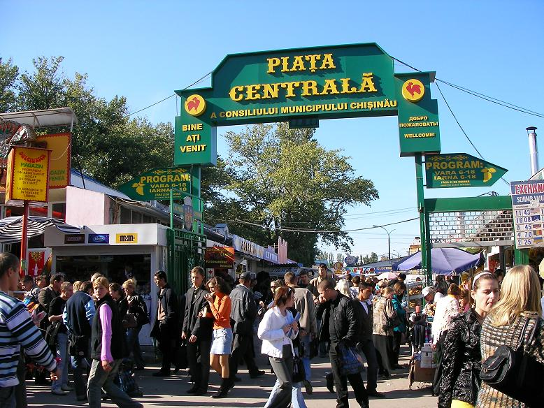 Chisinau market area